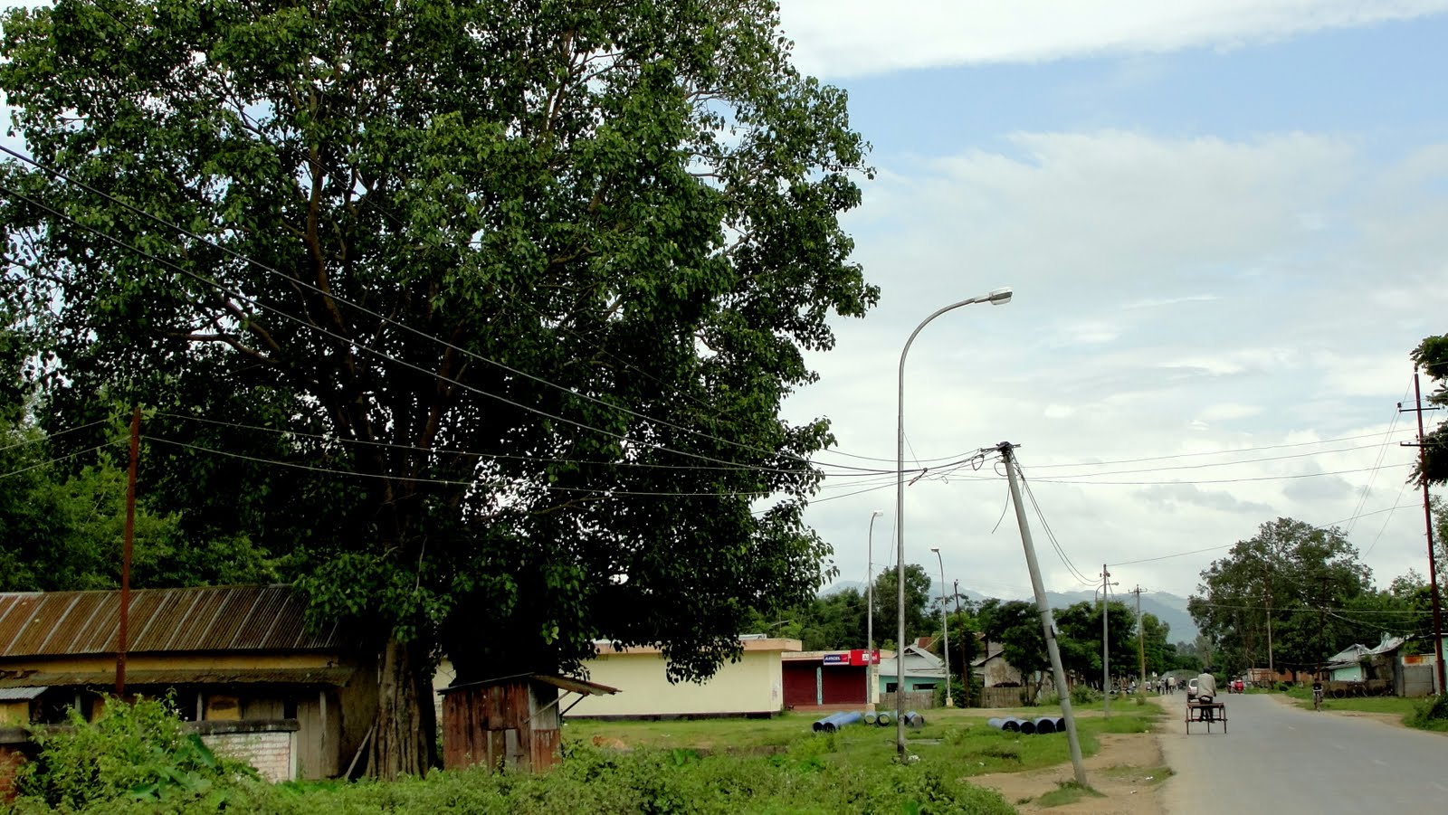 The National Highway Number 39 (New NH 102) which connects Numaligarh, Assam to the end of Indo-Myanmar Border town Moreh runs through Khangabok.